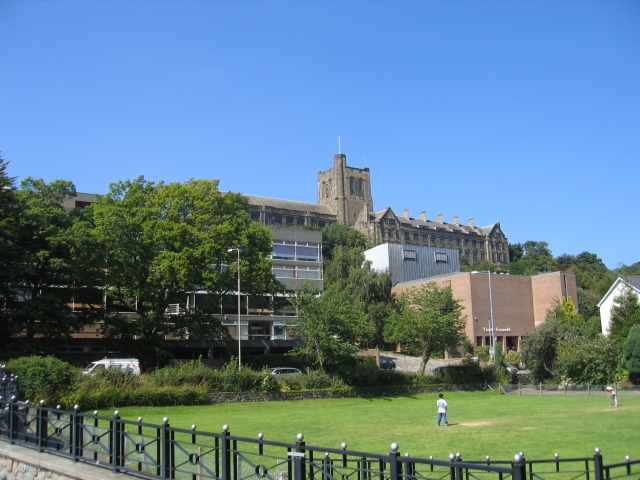 University College of North Wales, Bangor. Top Col, the main College building on the hill overlooking Bangor, with the Students' Union in the trees on the left and Theatr Gwynedd on the right.